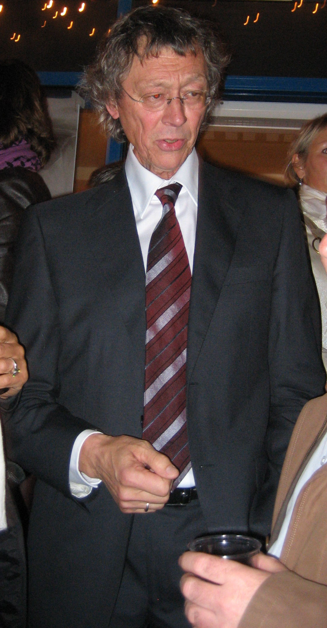 Cropped photo of Norwegian film director Knut Erik Jensen in Honningsvåg at the 11 September 2008 première of his new film Iskyss.